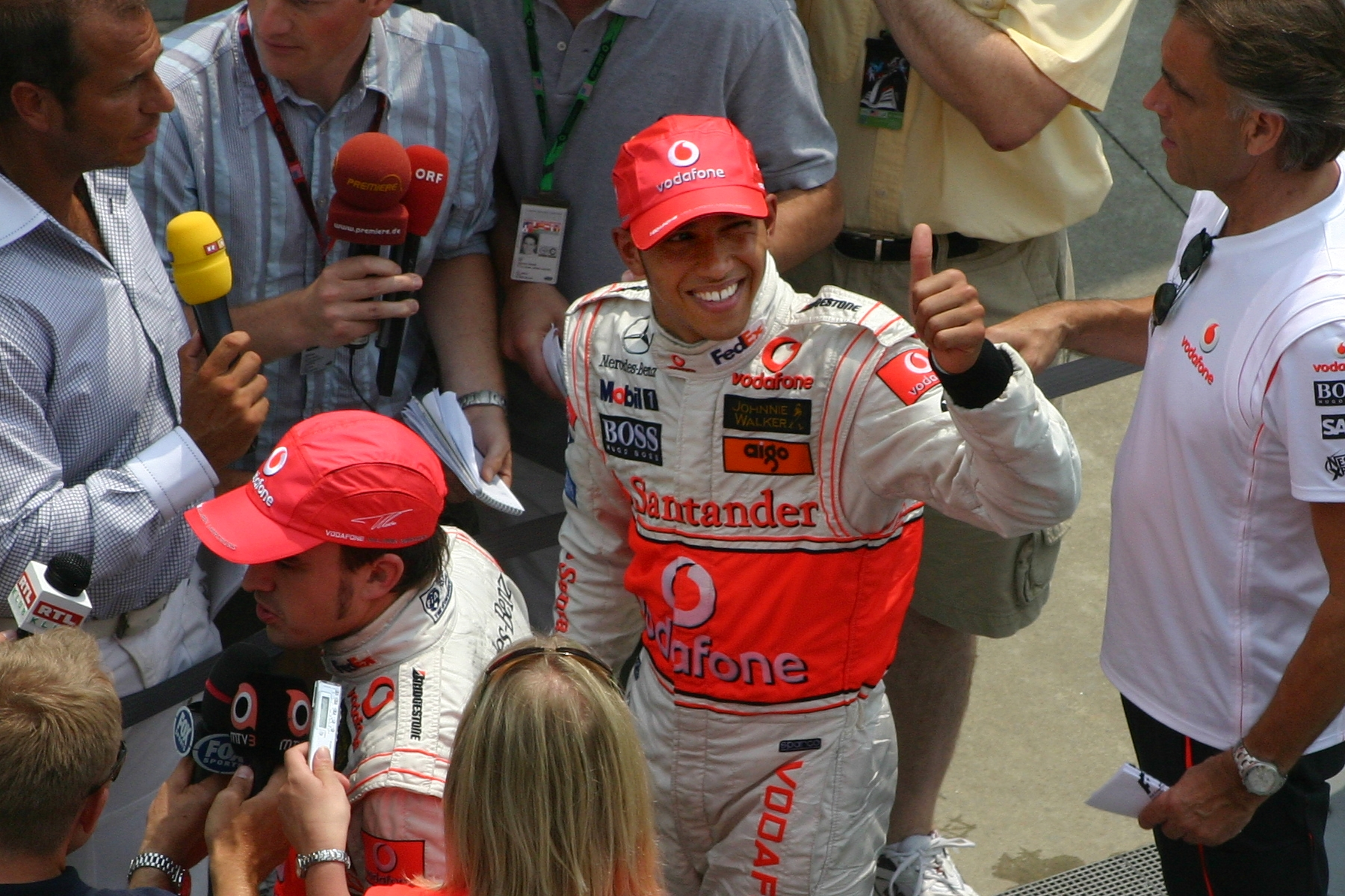 McLaren-Mercedes Formula One driver Lewis Hamilton greets fans and press following his win at the 2007 United States Grand Prix at the Indianapolis Motor Speedway on June 17, by Rick Dikeman.